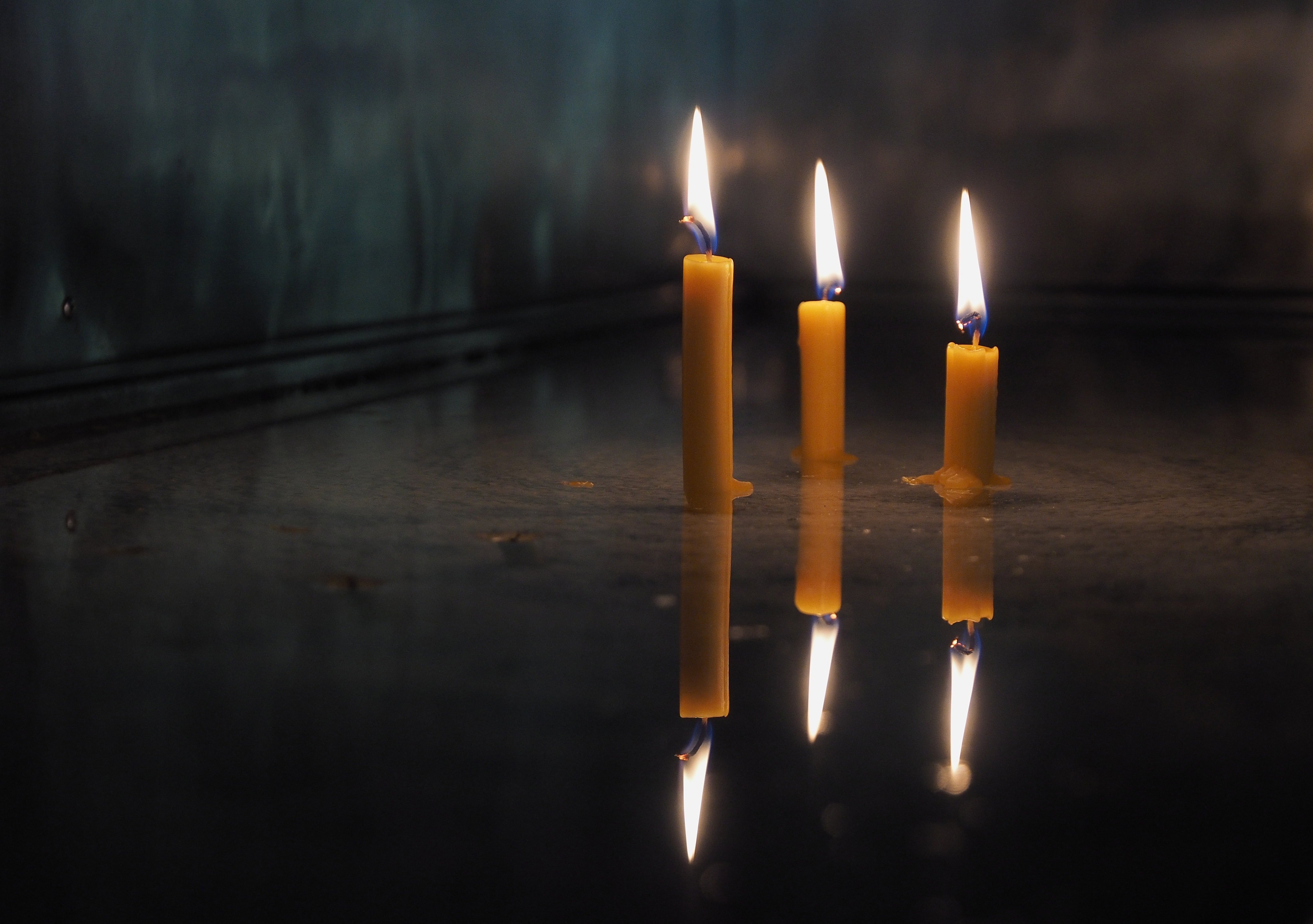 Moštanica Monastery, chapel for lighting candles. Municipality of Kozarska Dubica, Republika Srpska Српски (ћирилица): Манастир Моштаница, капела за паљење свећа. Општина Козарска Дубица, Република Српска Православна црква и манастир св. Михаила, Моштаница, Козарска Дубица ID добра: NKD407 This image was uploaded as part of Trace of Soul 2017. This photograph was taken with an Olympus E-M1